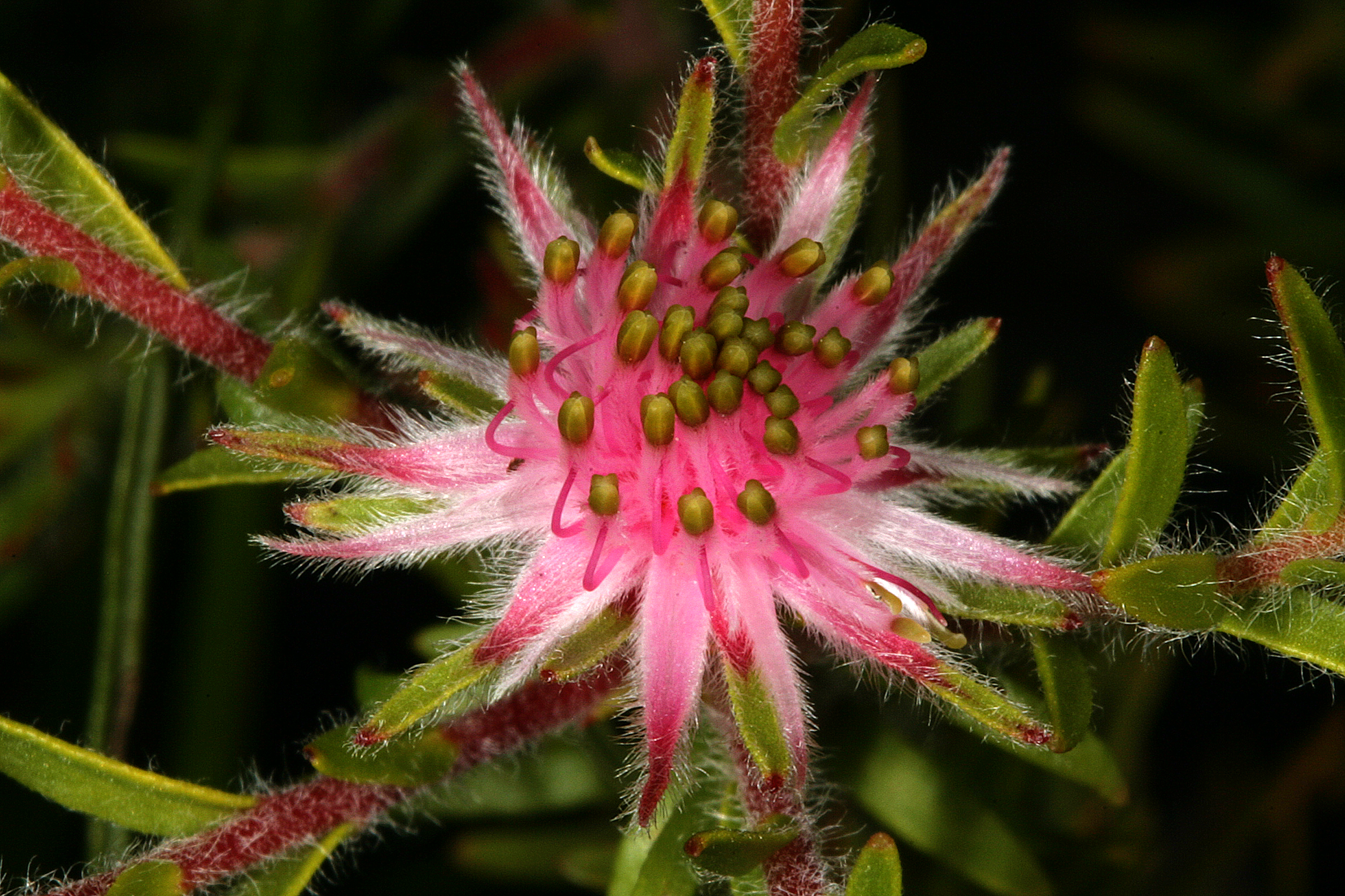 Diastella proteoides, flowerhead; Kirstenbosch National Botanical Garden, Cape Town, Western Cape, South Africa